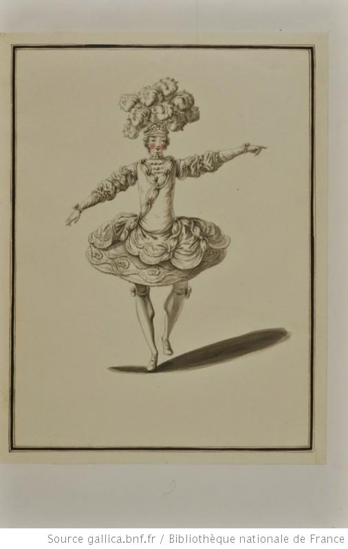 "Castor and Pollux", costume by Louis-René Boquet (1737)